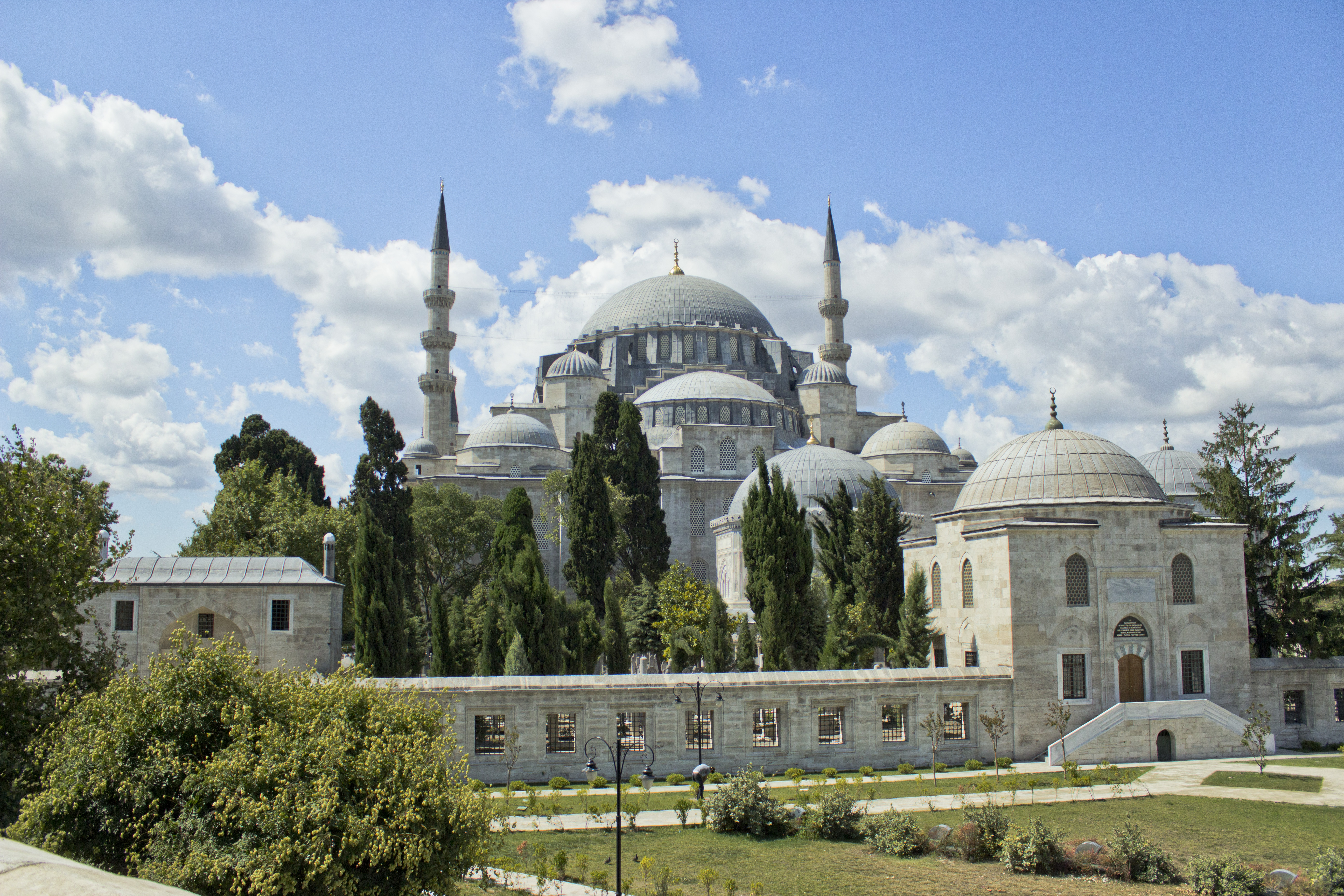 A view of Süleymaniye Mosque in Istanbul, Turkey